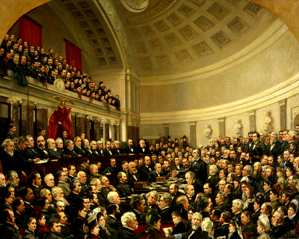 The Florida Case before the Electoral Commission by Cornelia Adèle Strong Fassett From US Government Website and Painter died in 1898.